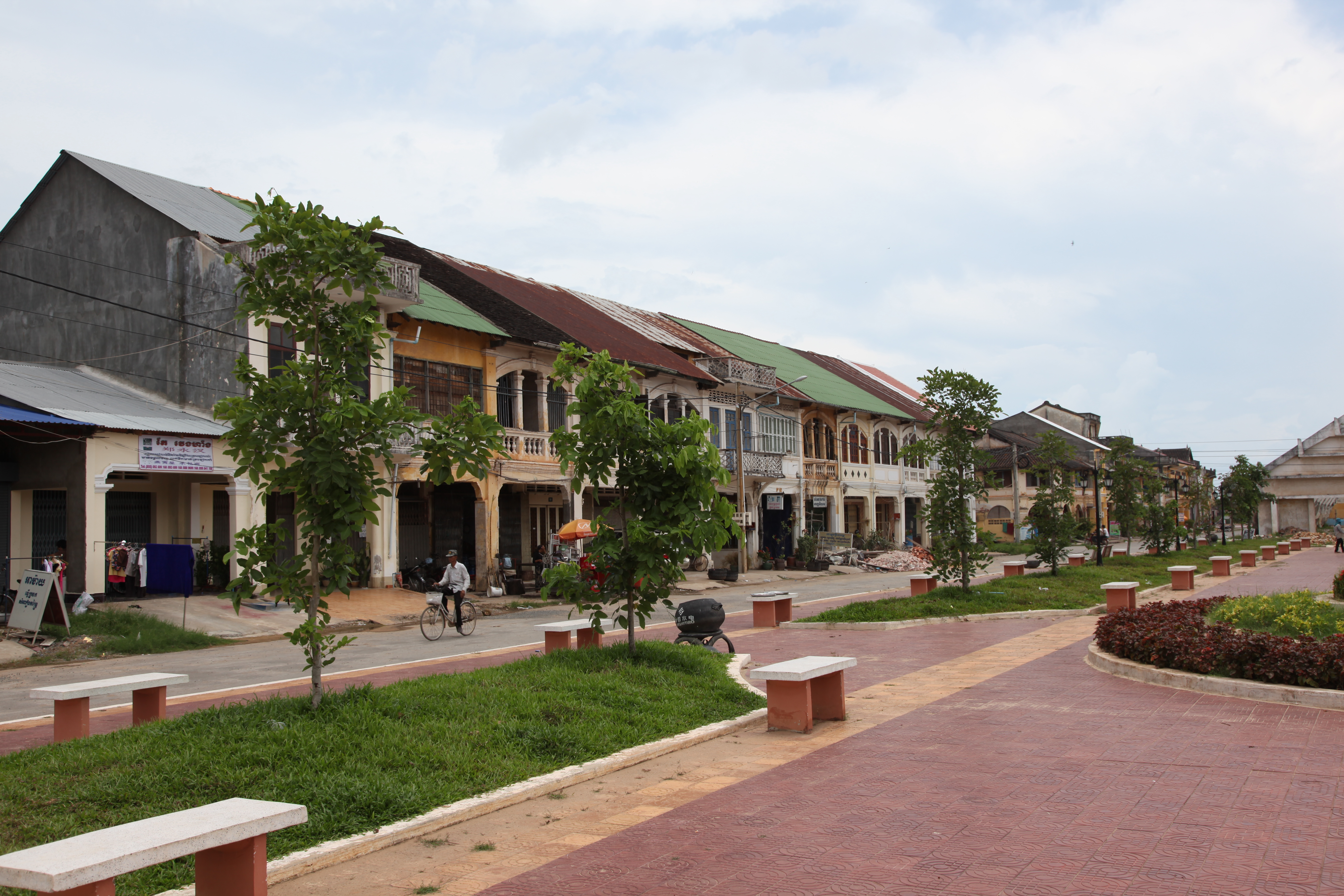 Street in Kampot in Cambodia